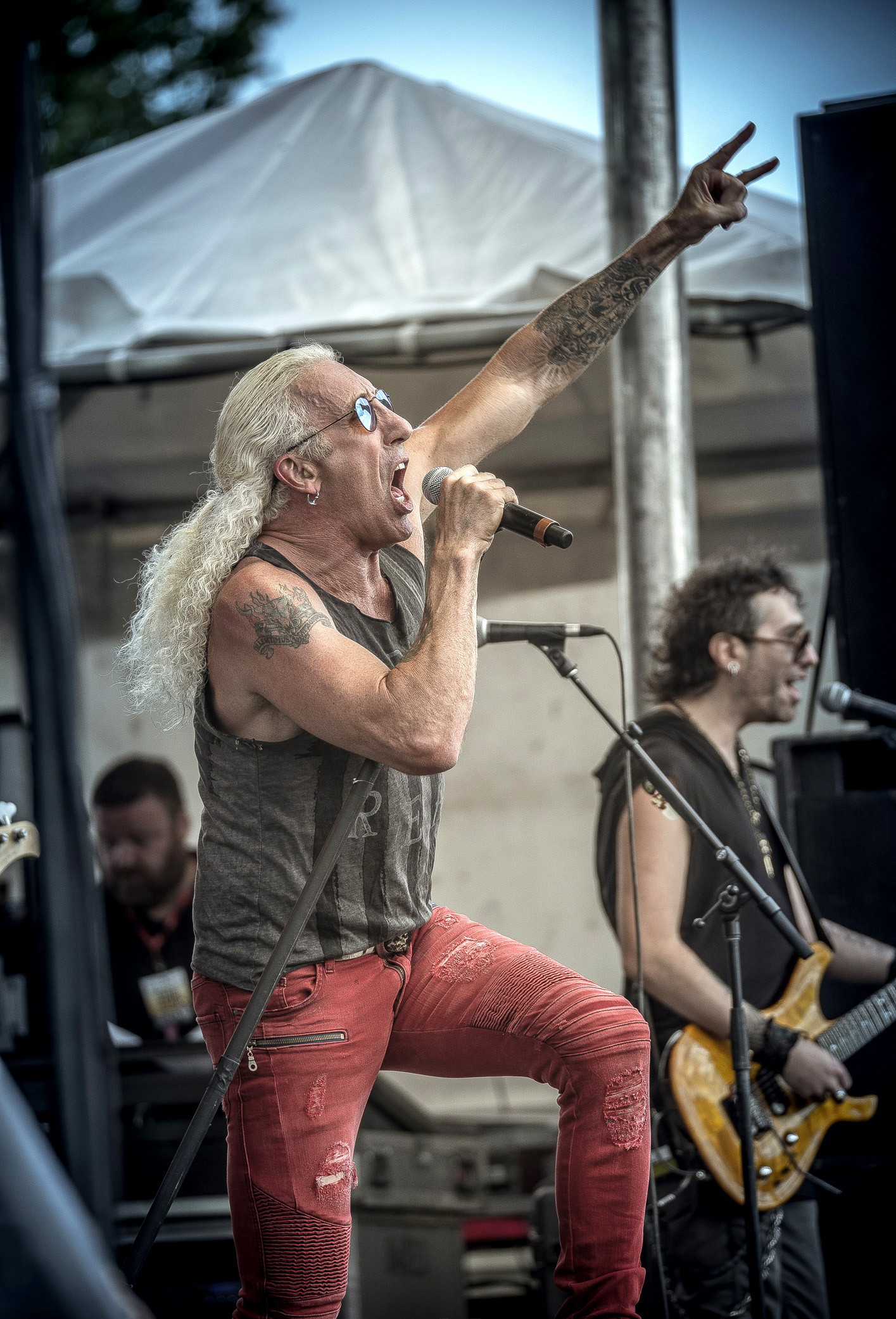 Dee Snider, live Montebello 2017